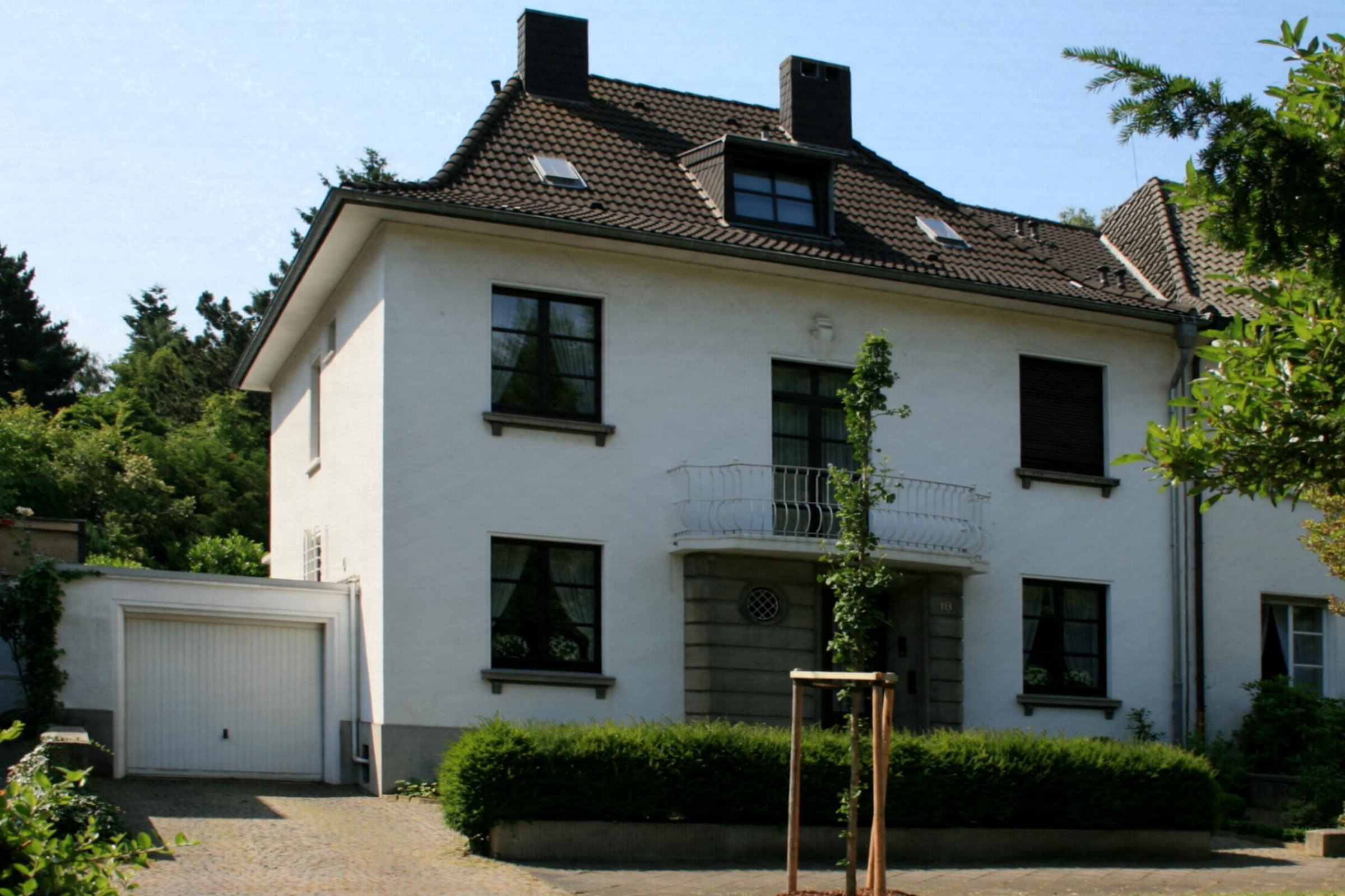 Cultural heritage monument No. St 012 in Mönchengladbach